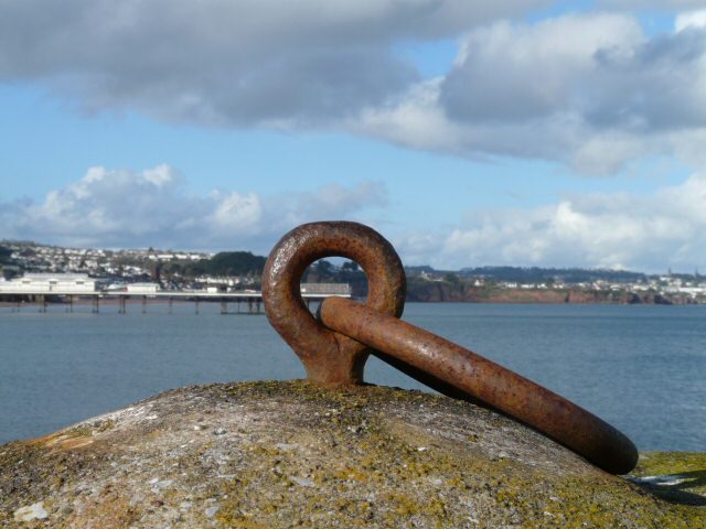 Mooring Ring Paignton Pier through the eye of a mooring ring on Paingnton Harbour